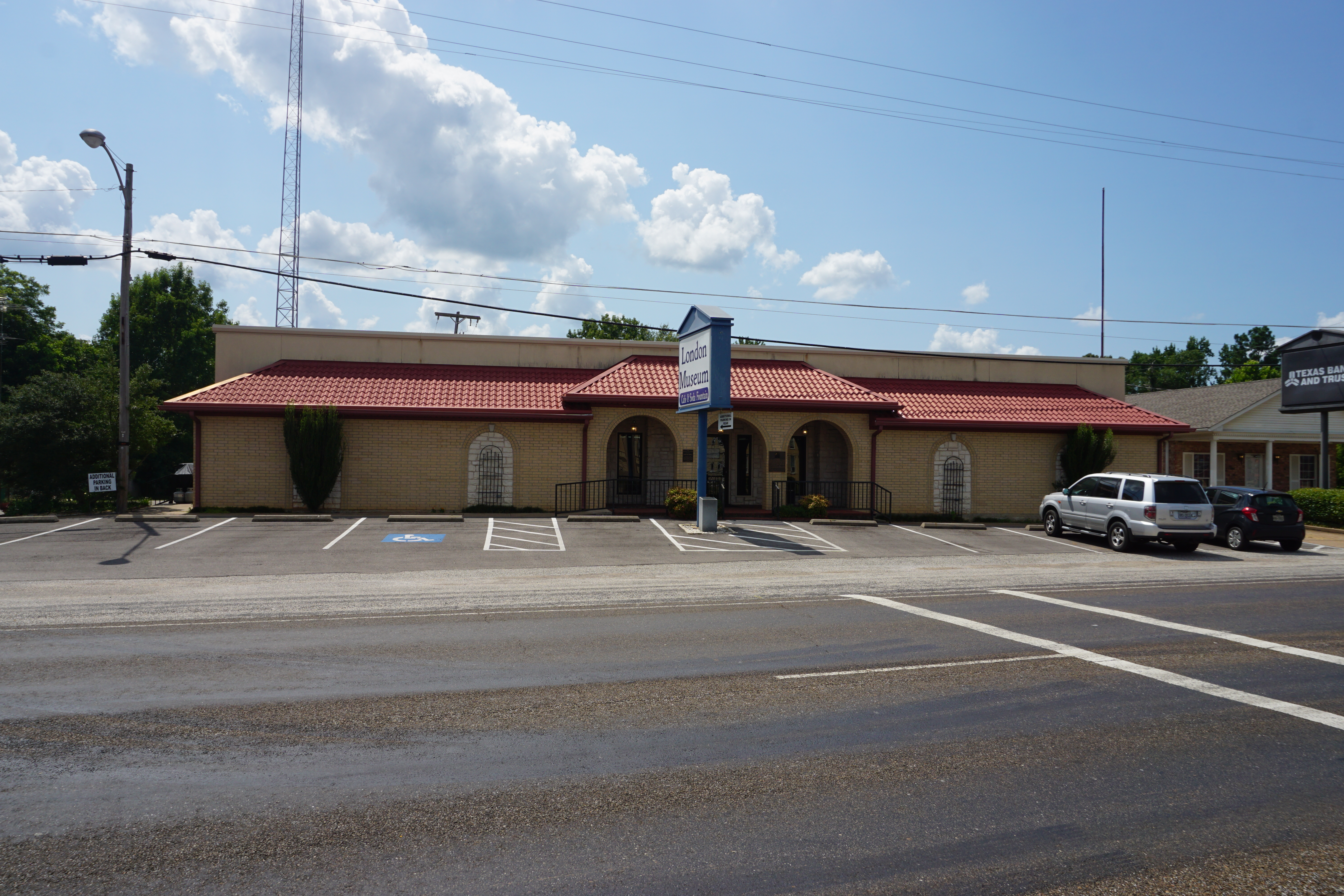 The London Museum in New London, Texas (United States).